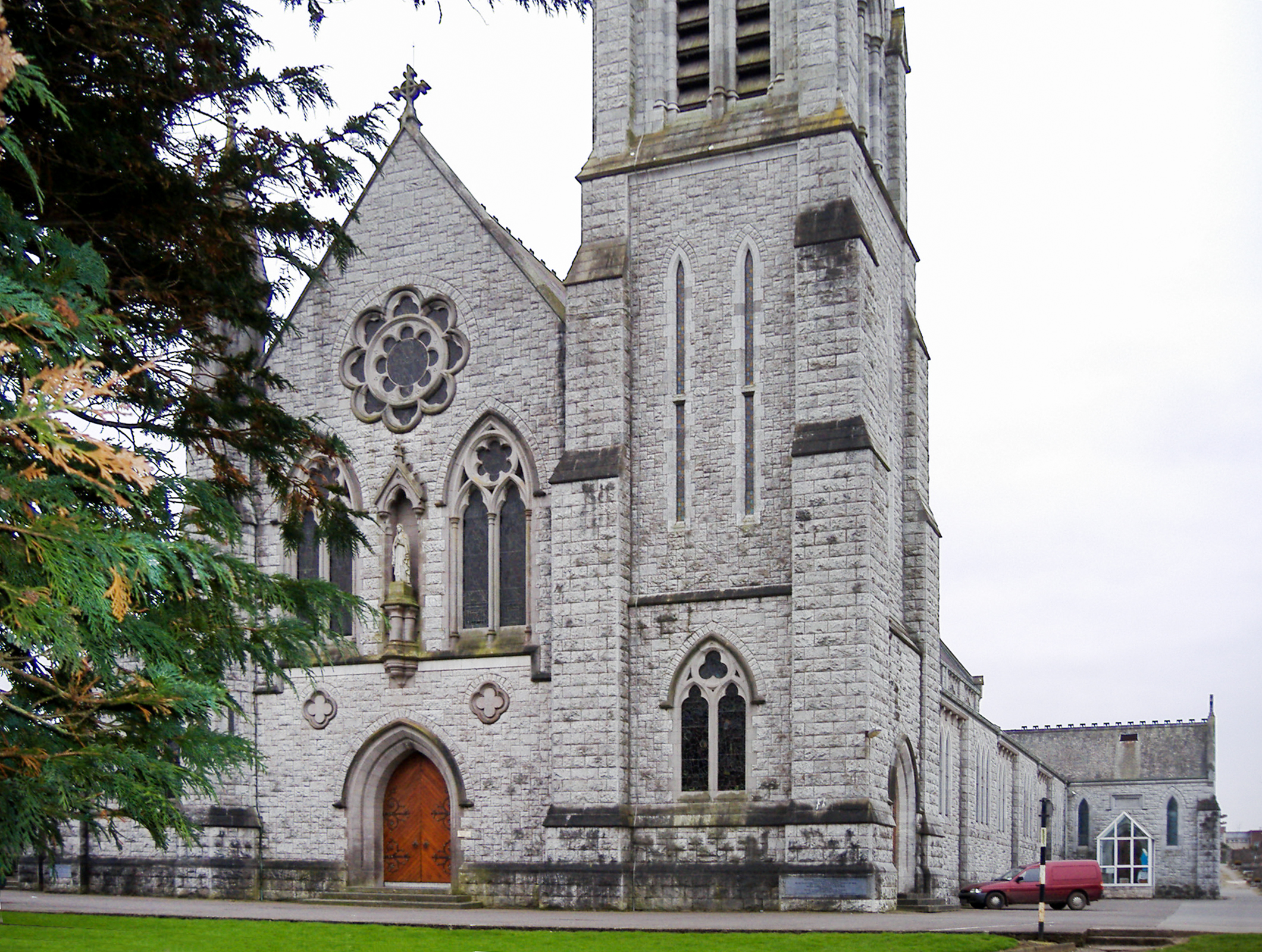 Photo taken by MacLeinin 2006